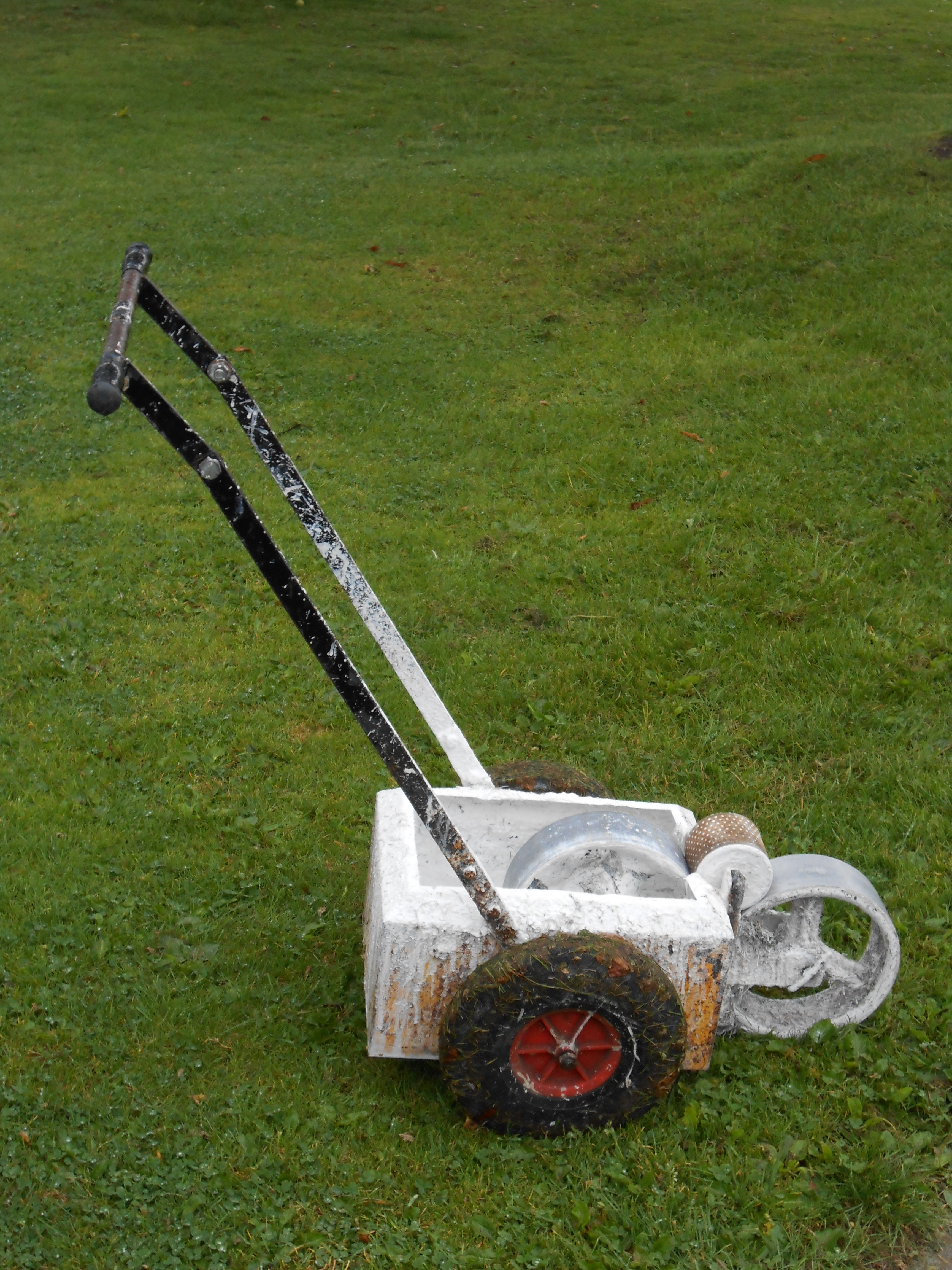 A transfer wheel line marking machine in Birkenhead Park, Merseyside, England.